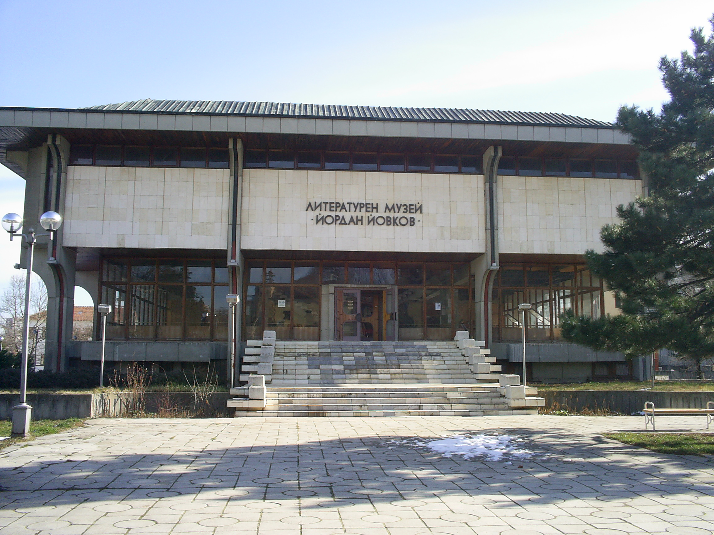 Museum of Yordan Yovkov in Dobrich, Bulgaria